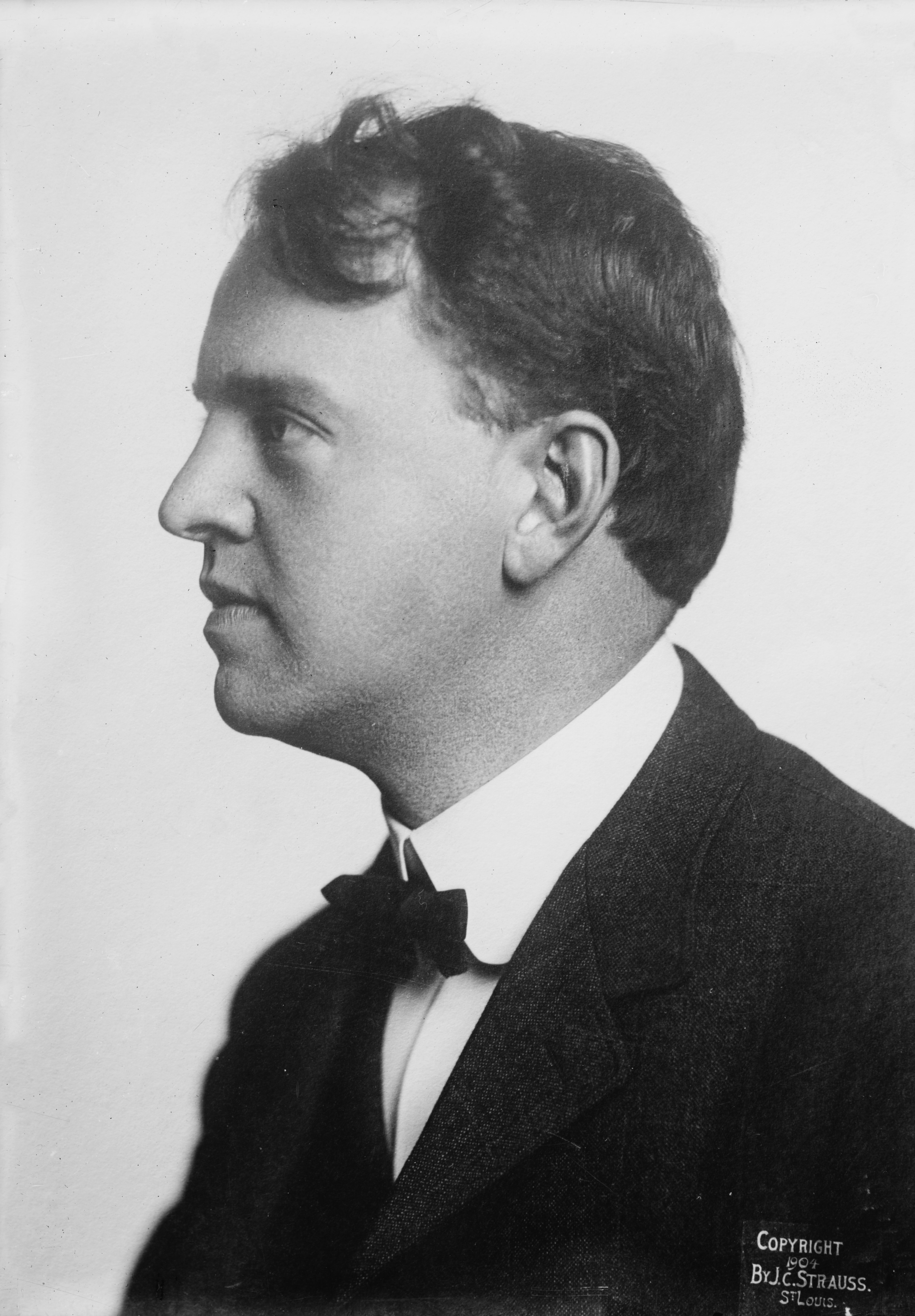 Portrait of artist William Homer Leavitt, black-and-white photograph, J. C. Strauss, St. Louis, Mo., George Grantham Bain Collection, Library of Congress Prints and Photographs Division, Washington, D.C.